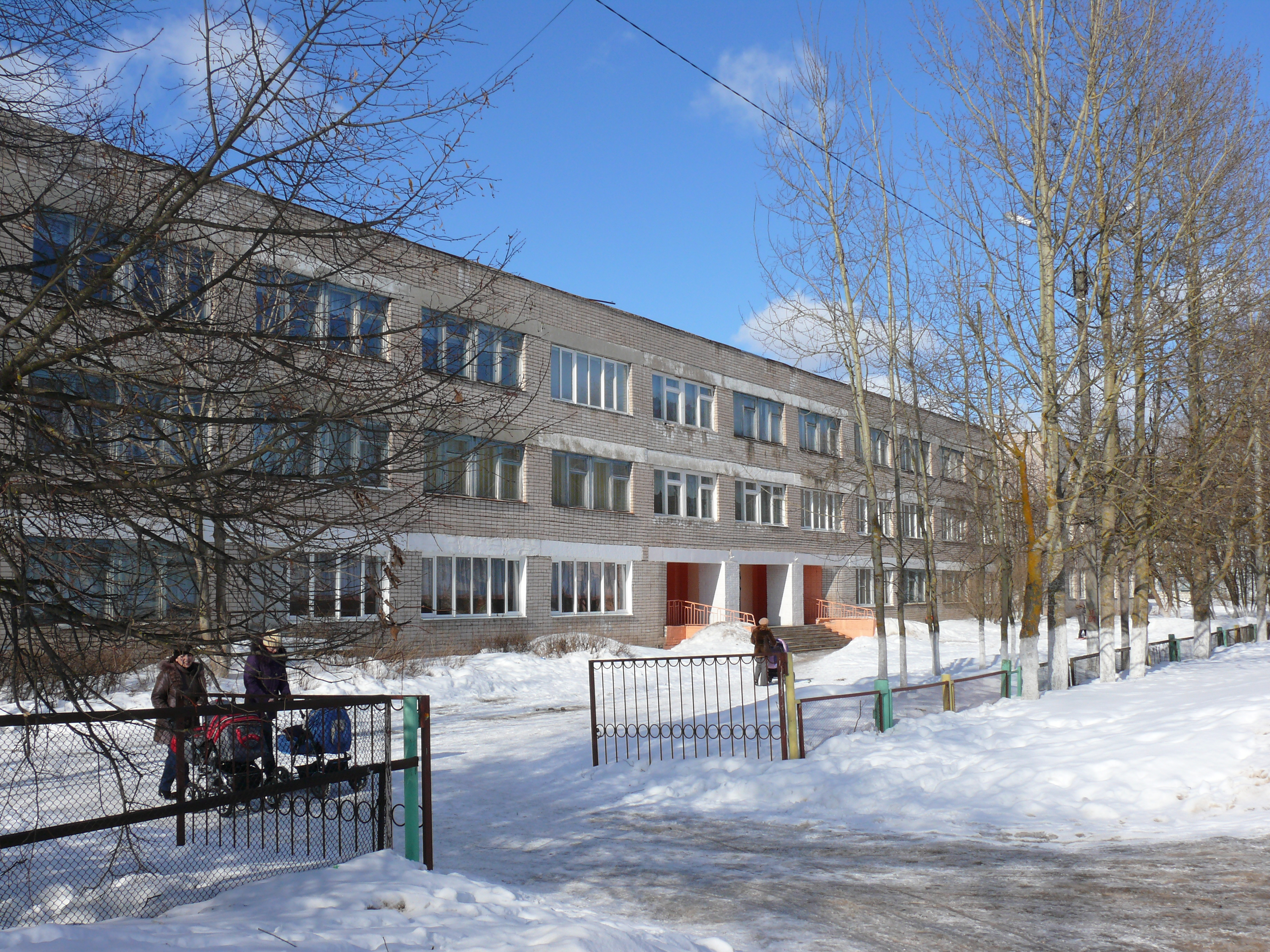 The School in Pankovka village. Novgorodsky district, Novgorod oblast, Russia